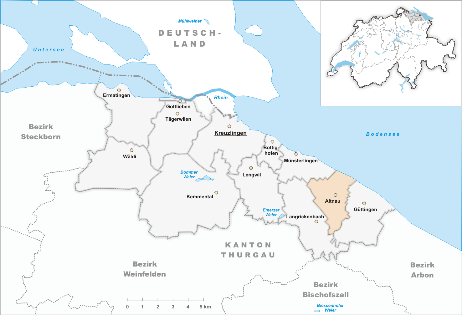 Municipality Altnau